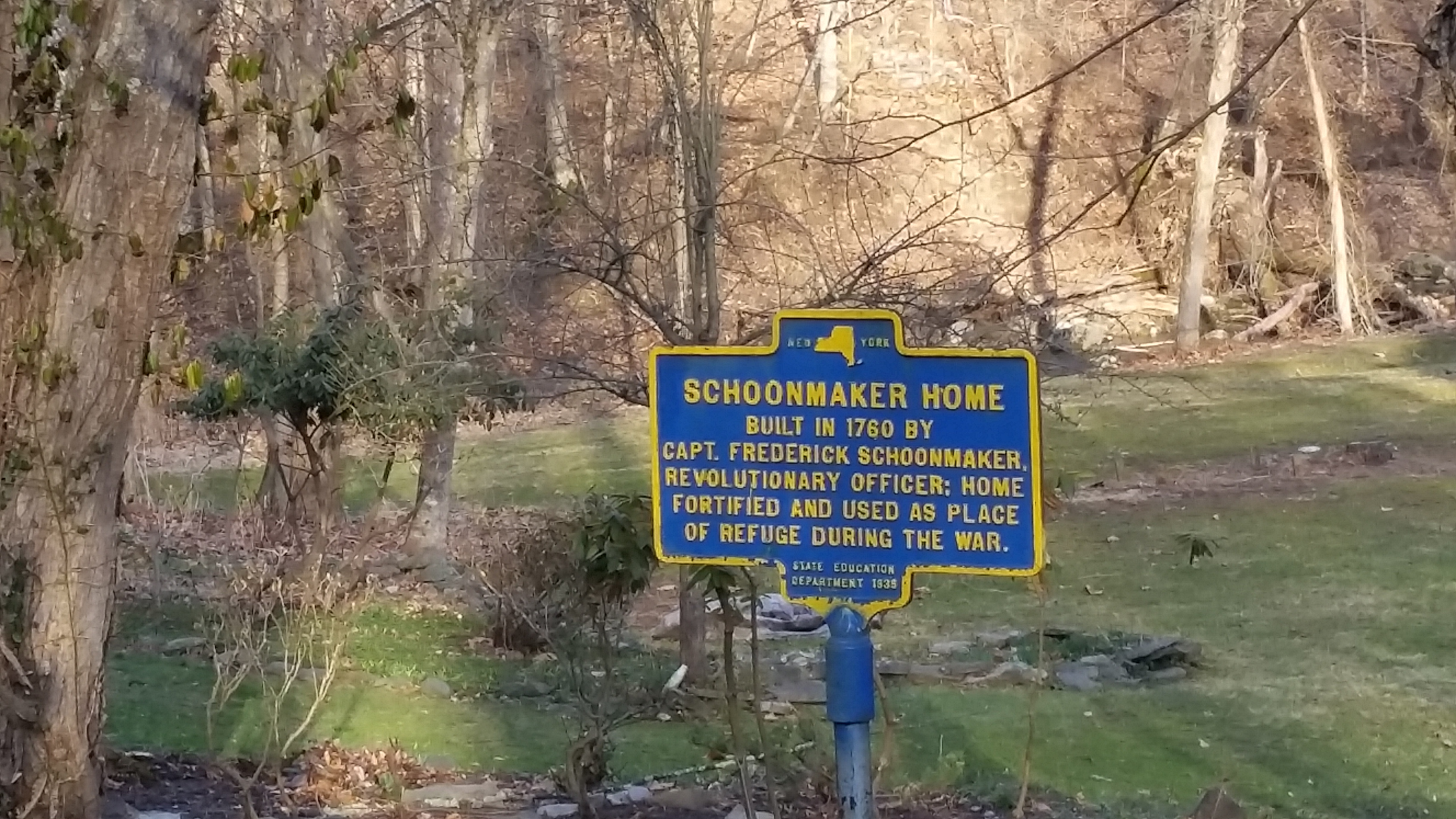 New York State historical marker for one of many Schoonmaker homes